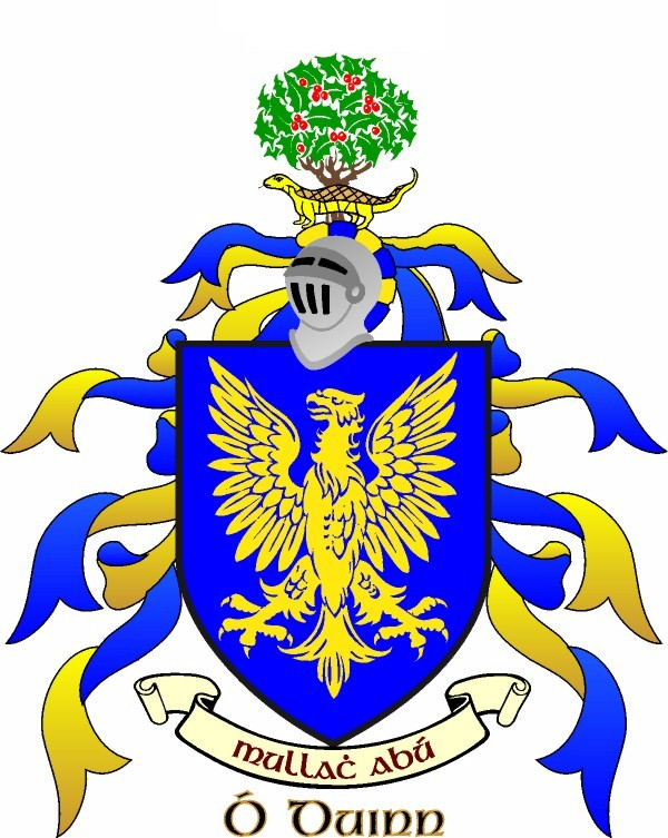 Dunne Surname Coat of Arms